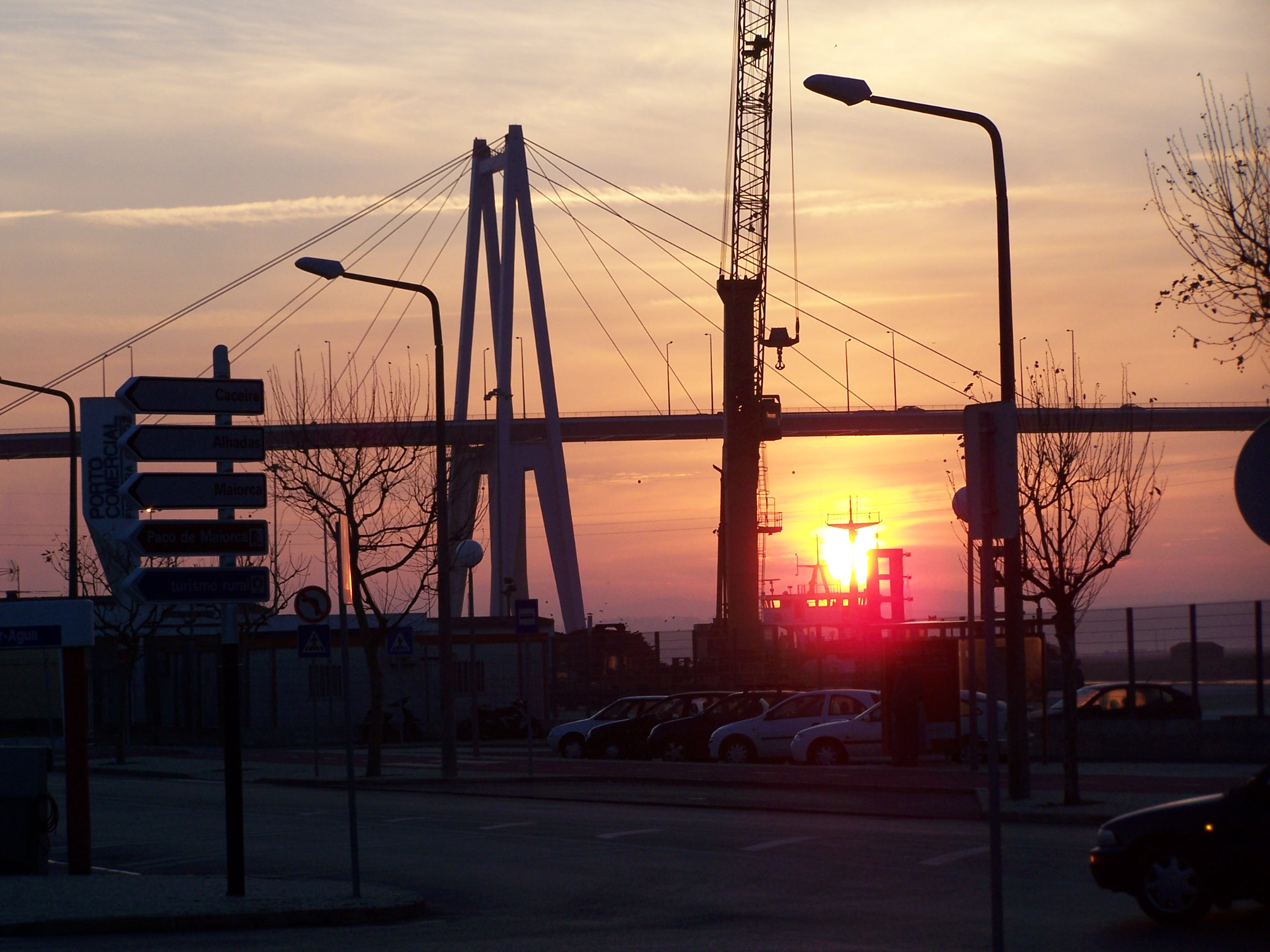 Sun rise in Figueira da Foz, taken near the train station. In the background is the "Ponte de Edgar Cardoso"